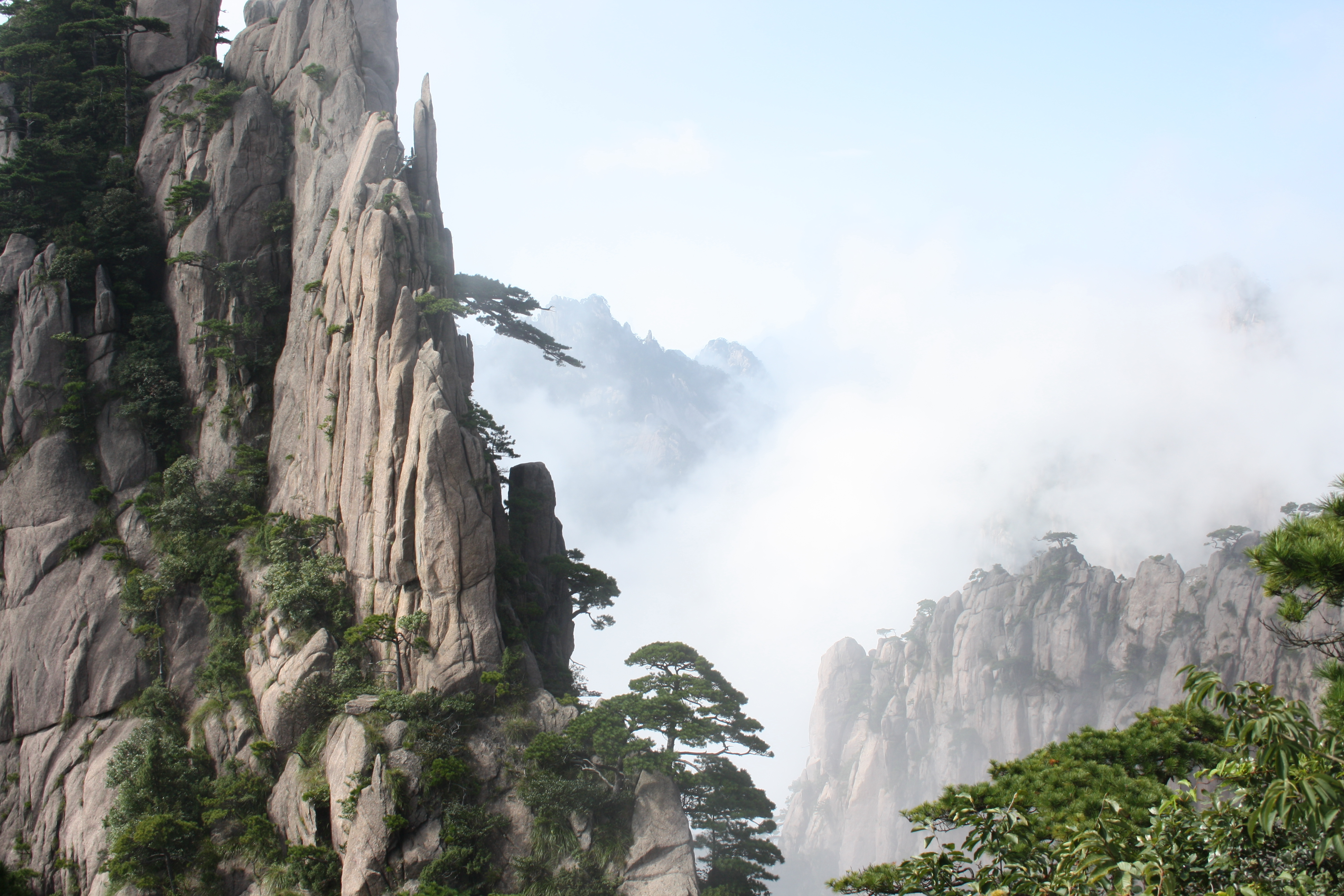 Rocks in Huangshan mountains.